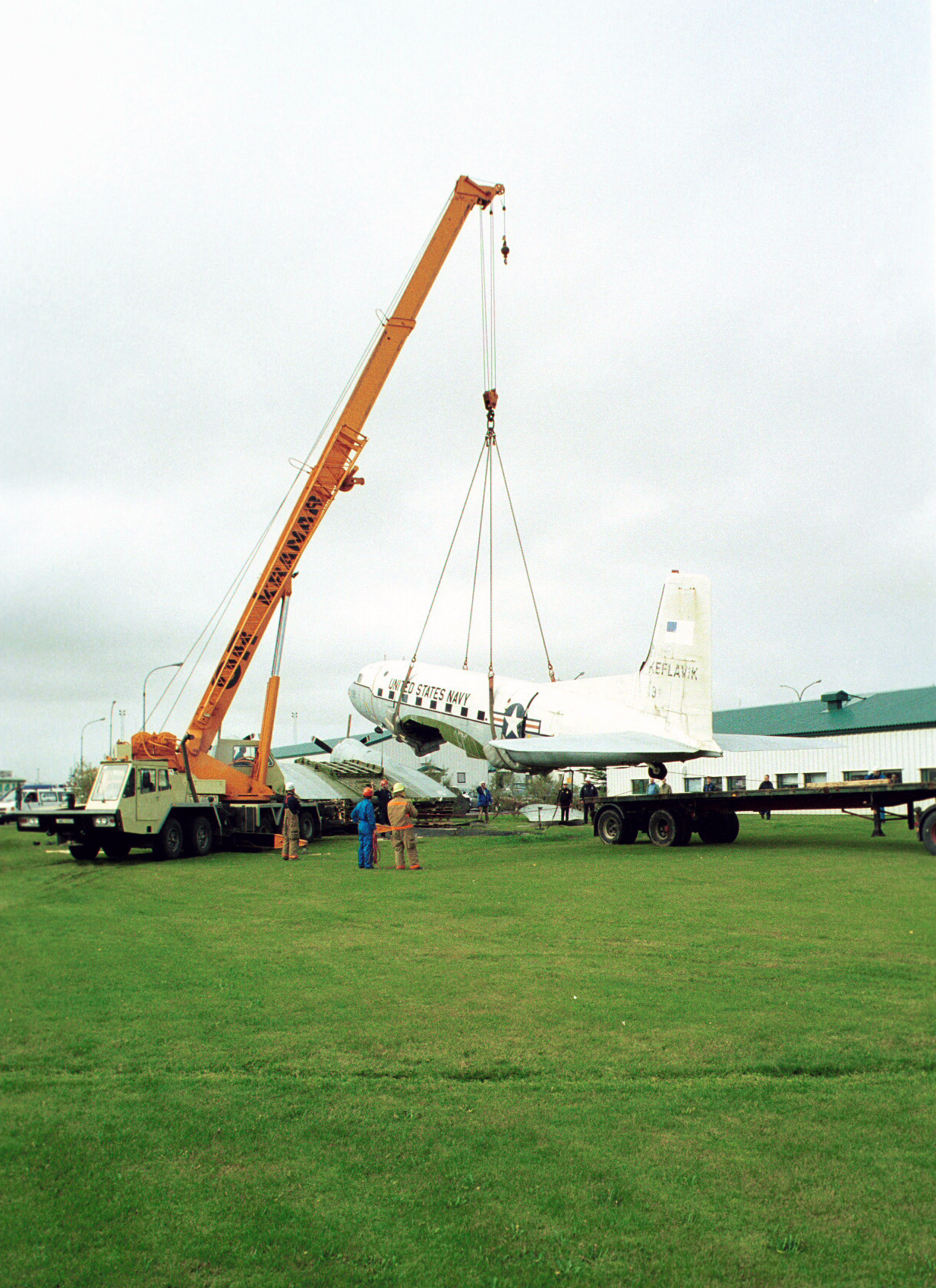 Naval Air Station Keflavik, Iceland (Sep. 16, 2002) -- Members of the stations Fire and Emergency Services (FES) finish dismantling a C-117D "Super Gooneybird". Bureau #17191. The aircraft had been on static display aboard the station since 1977, and is to be donated to the Icelandic Aviation Museum, where it will be fully restored. U.S. Navy photo by Journalist 2nd Class Stephen Sheedy. (RELEASED) Note: As of 2013, aircraft remains dismantled and exposed to the elements at the museum.